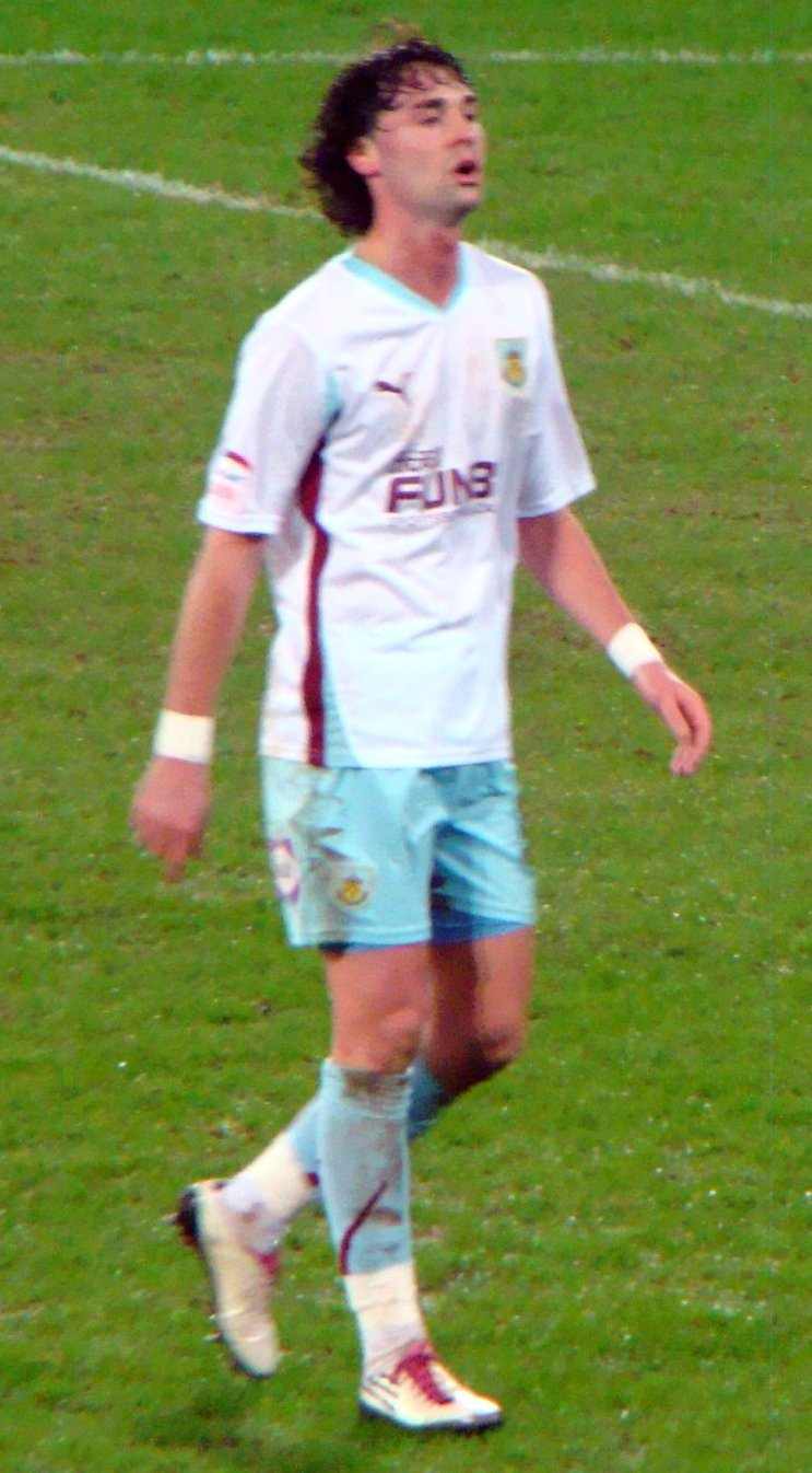 15/02/11 Cardiff V Burnley, Championship, Cardiff City Stadium, Cardiff, Wales